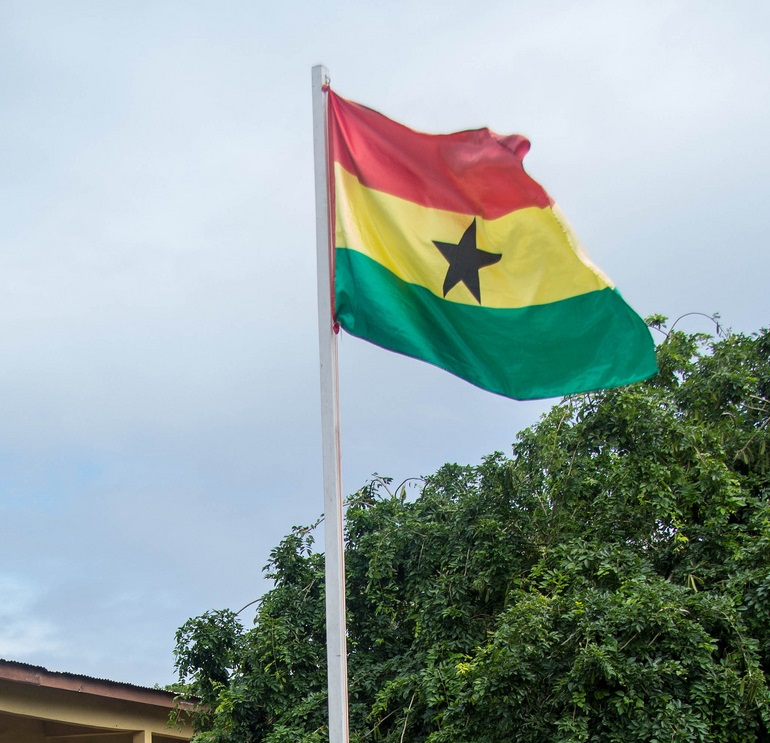 The Flag of Ghana and the Black Star.